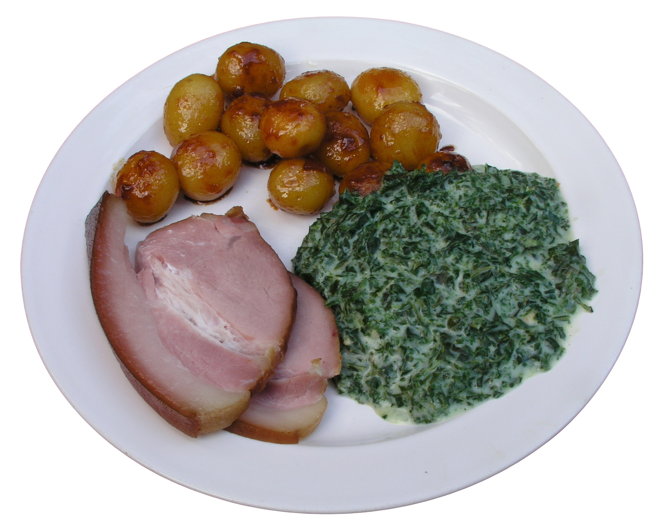 A traditional Danish New Year's dish (ham, caramelized potatoes and stewed kale).